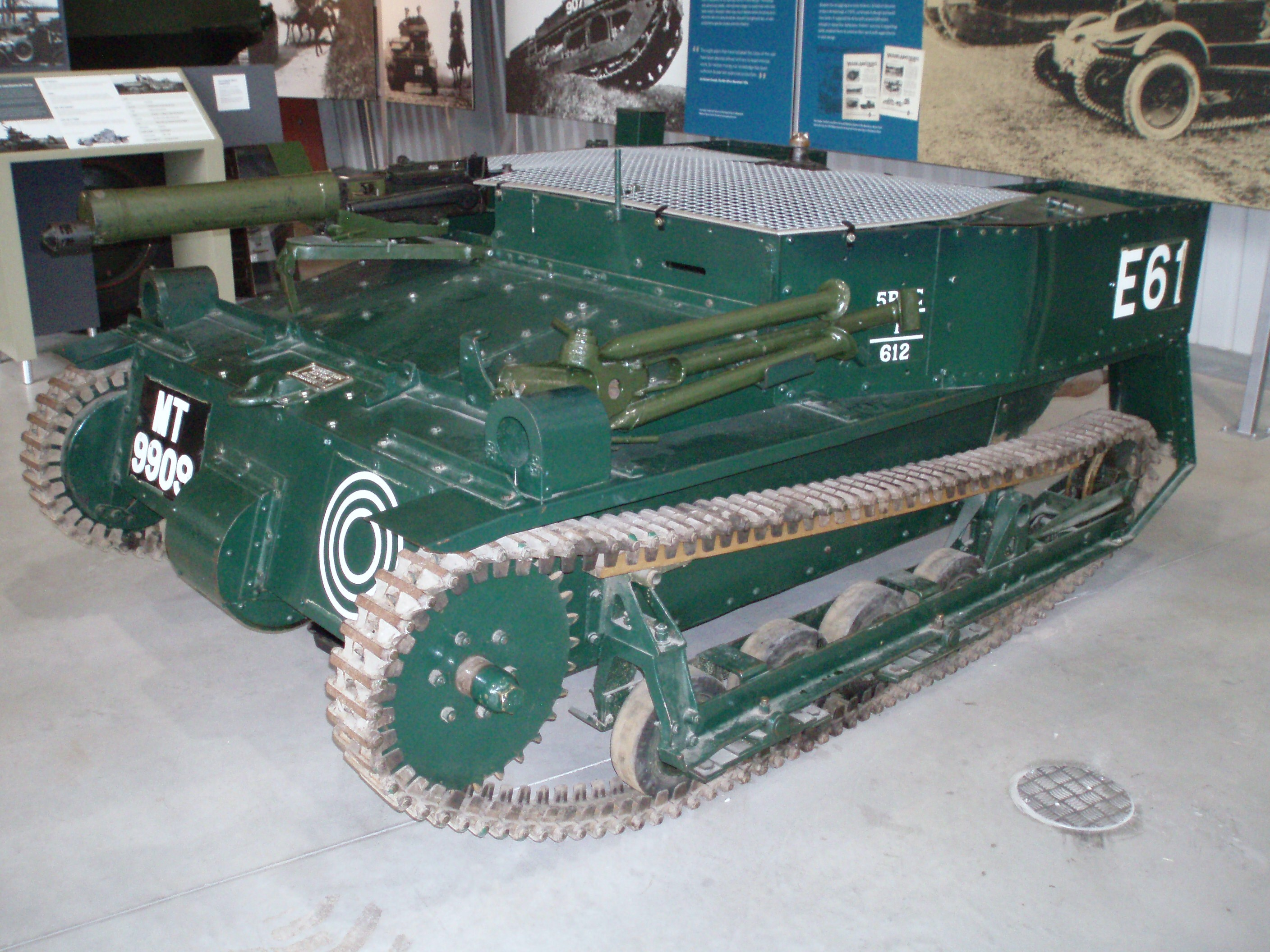 Bovington Tank Museum 040